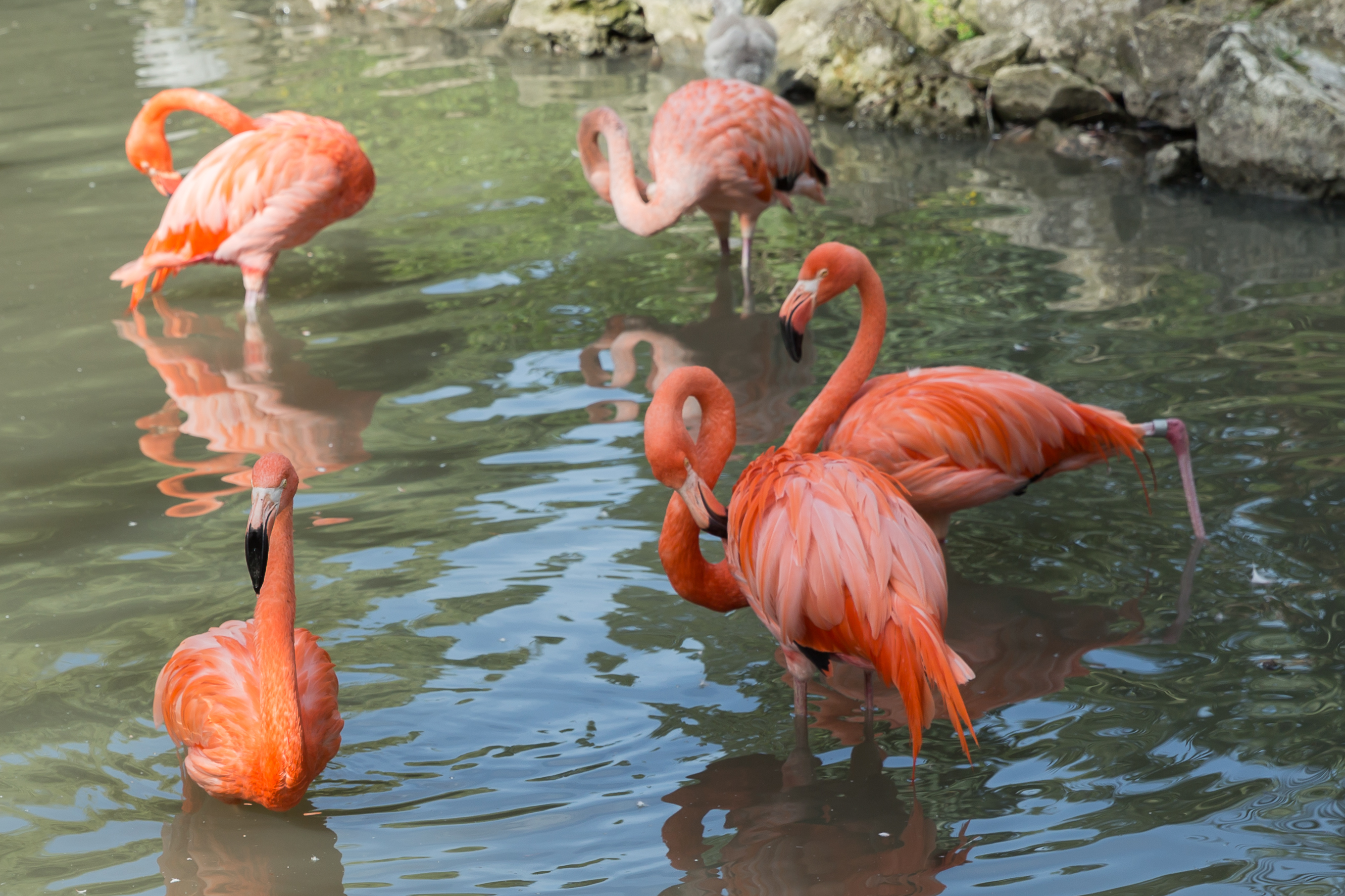 Phoenicopterus ruber (American flamingo) in the ZooParc de Beauval à Saint-Aignan-sur-Cher, France.